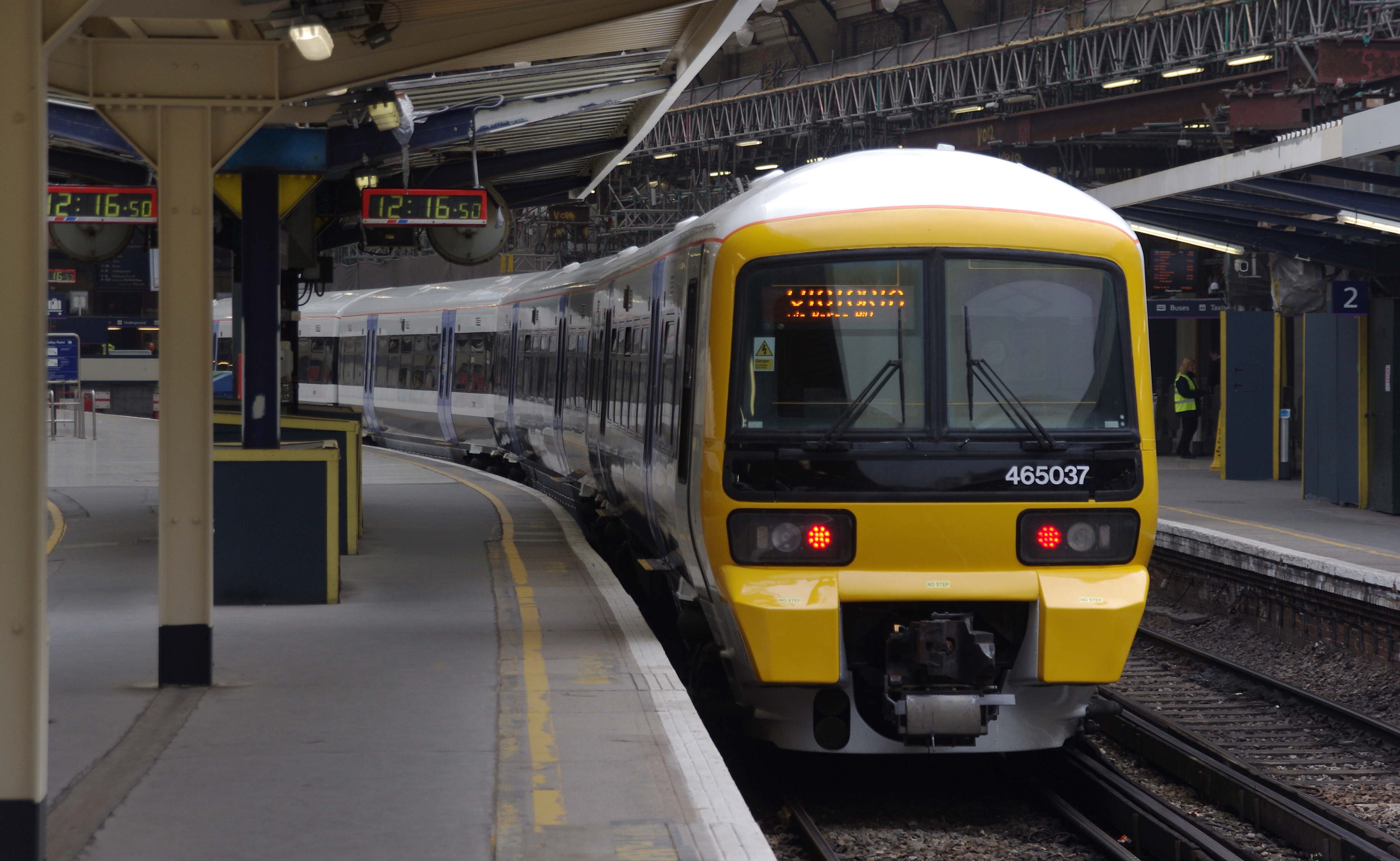 SouthEastern Networker EMU 465037, just arrived at London Victoria.